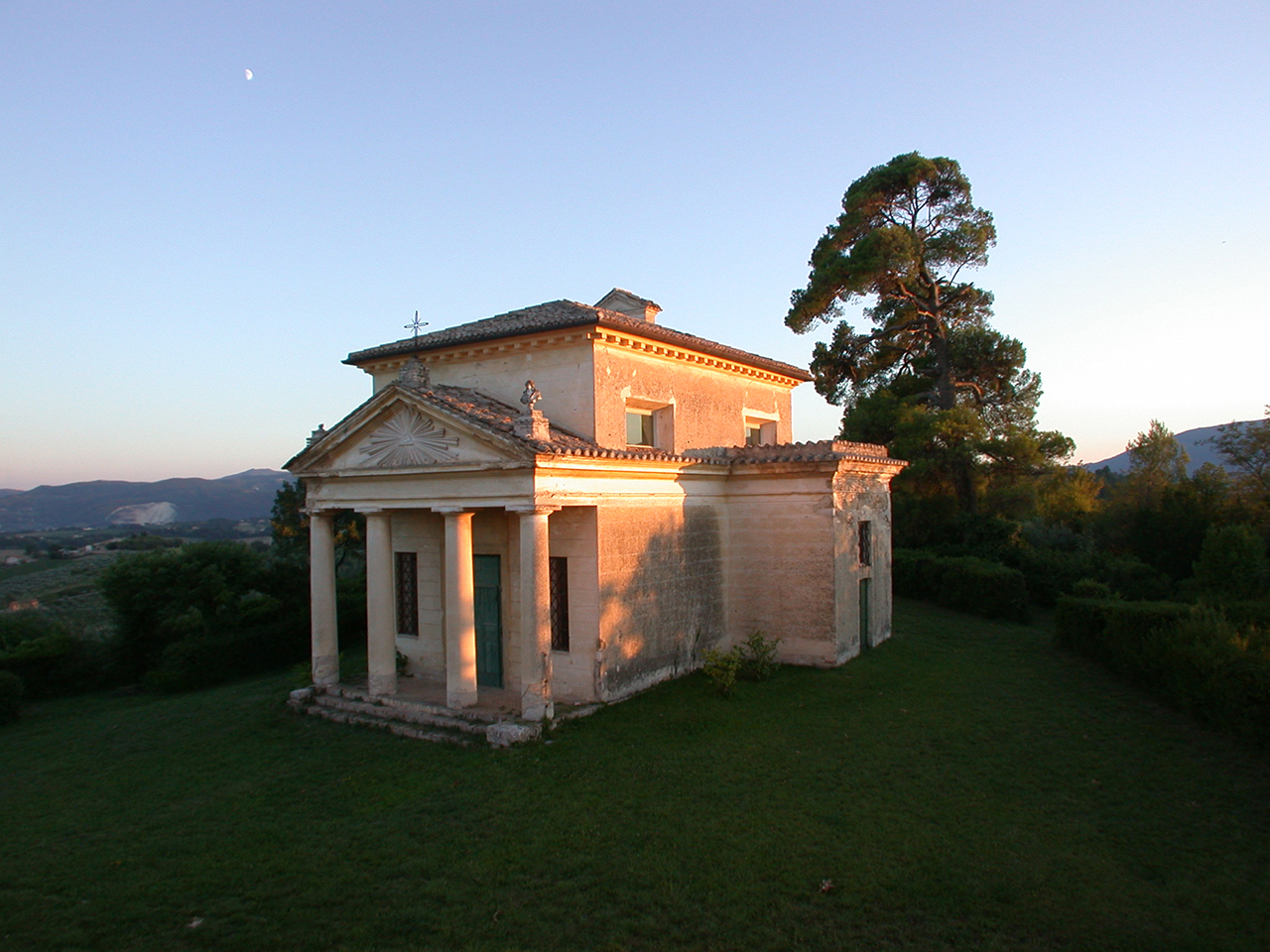 Chapel located in the Monumental Complex of Villa Pianciani, designed by Giuseppe Valadier (late 18th century)